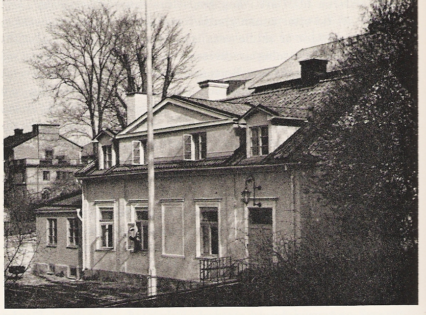 Kalmars 2nd nation house Uppsala 1957-1988